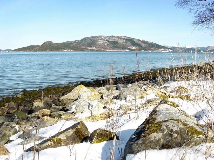 View north from Torvikbukt across Tingvollfjorden towards Aspøya